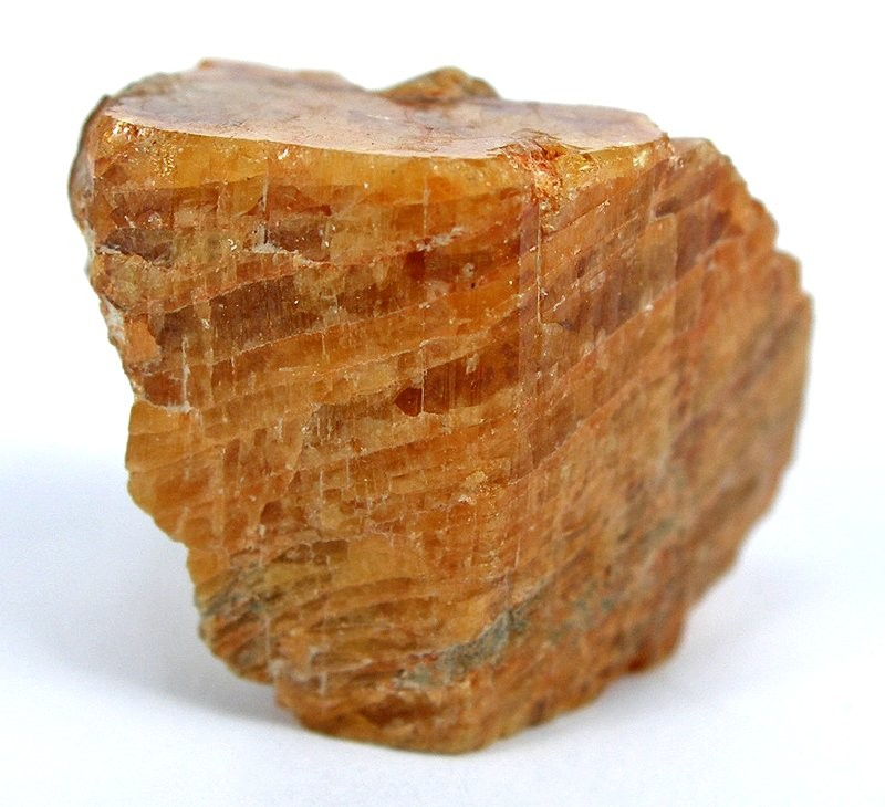 Simpsonite Locality: Alto do Giz pegmatite, Equador, Borborema mineral province, Rio Grande do Norte, Northeast Region, Brazil (Locality at ) Size: 1.6 x 1.5 x 1.8 cm. A sharp, lustrous, richly colored crystal that is doubly-terminated on top and bottom, though contacted on back. This piece was brought up from Brazil by Fred Pough in the 1940s when he made a famous find here (published 1945). He sold it in the late 1940's to Alex Mann of NYC.